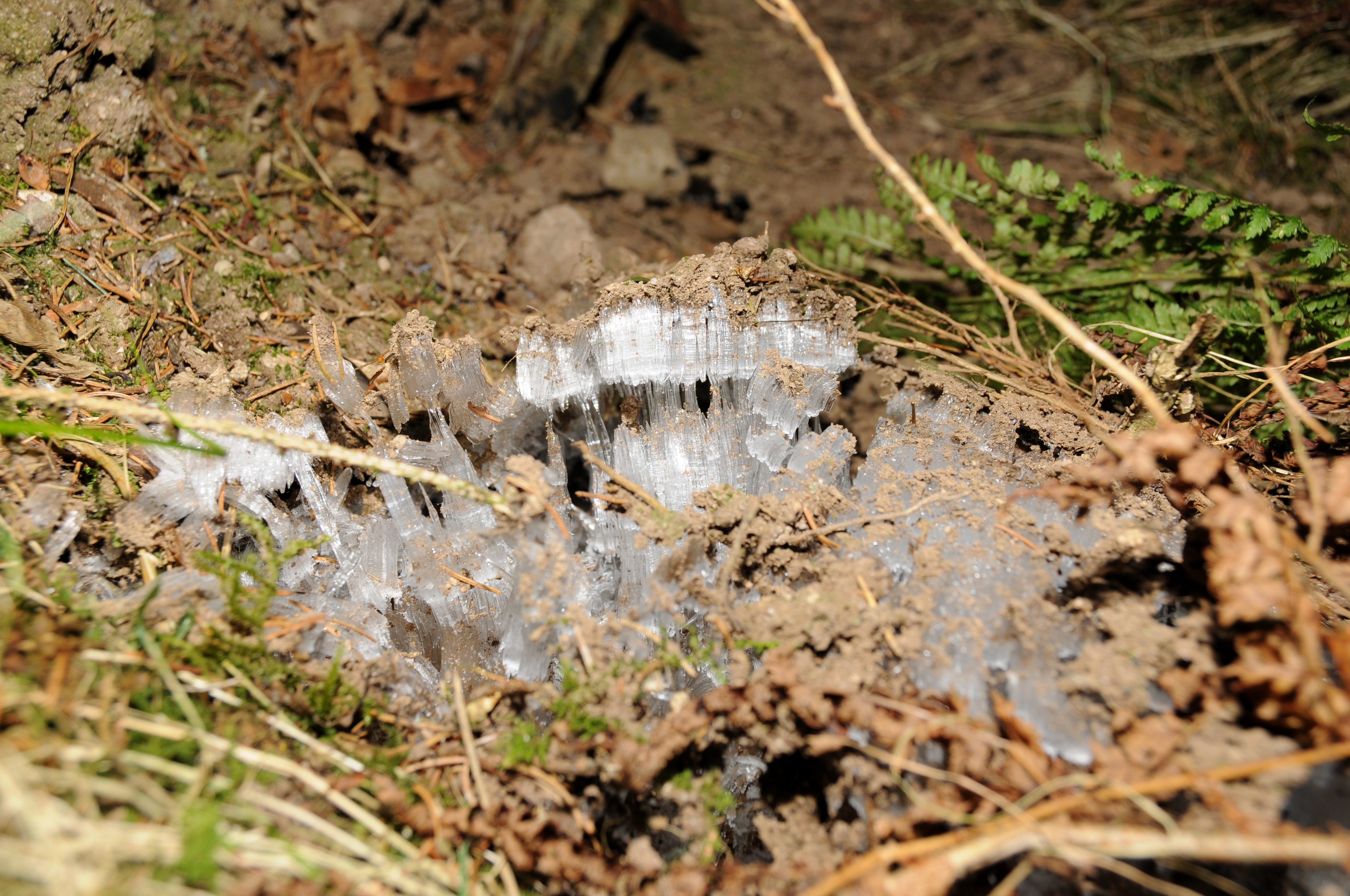 Needle ice.